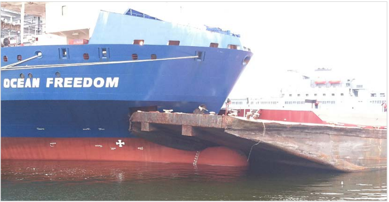 Impaled by the bow of the Ocean Freedom, the starboard bow of the Kirby 28044 is lodged just above the vessel’s bulbous bow. In the background is the USNS Benavidez. (Photo by Coast Guard)